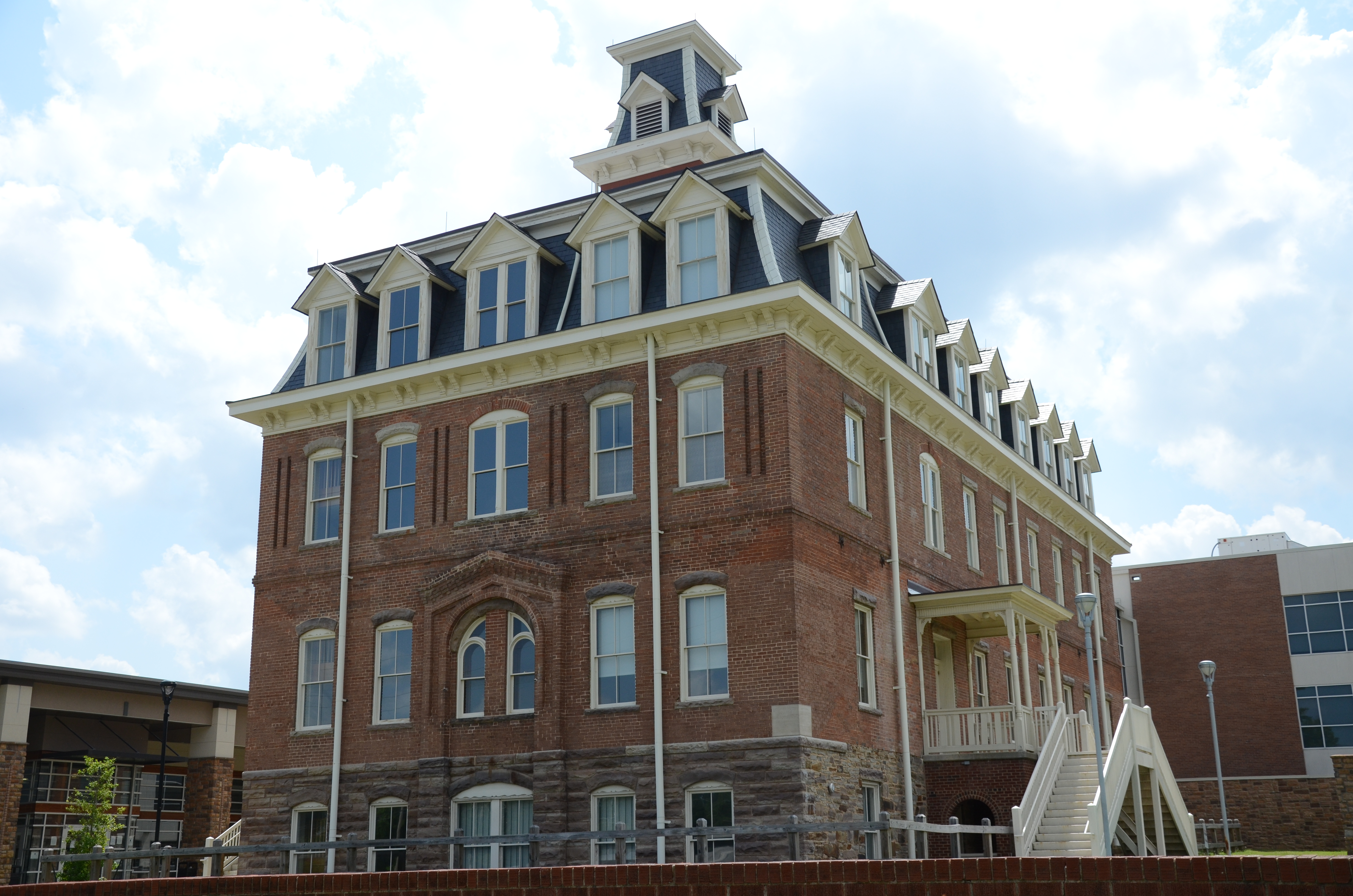 Main Building, Arkansas Baptist College